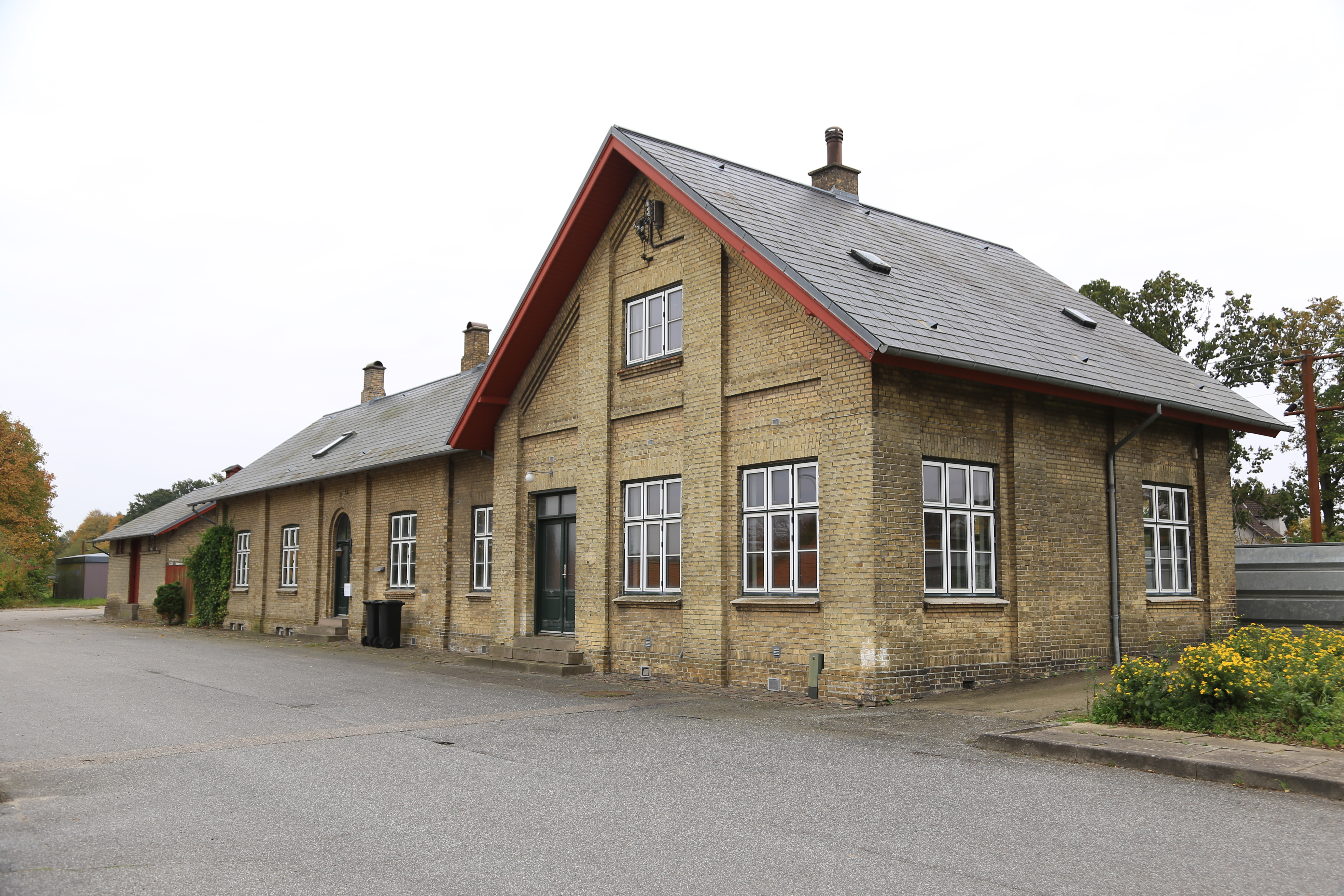 The former Langeskov Station building, closed in 1977. The station reopened a bit further to the west in October 2015.